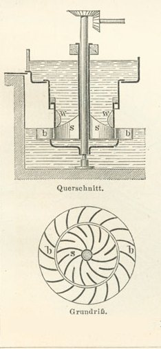 A Fourneyron turbine, taken from Meyer's Konversationslexikon from 1888